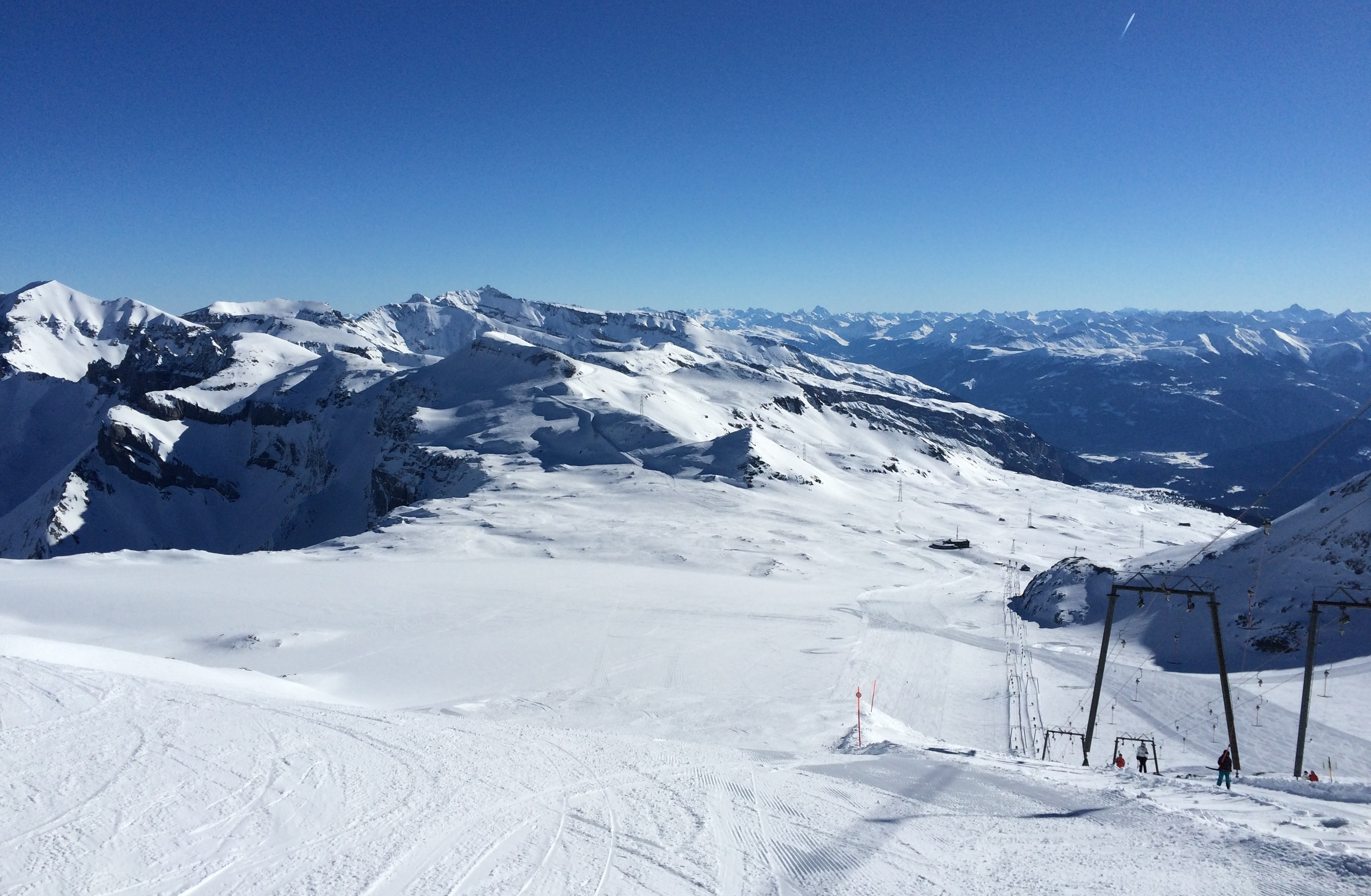 View of the Vorabgletscher slope.